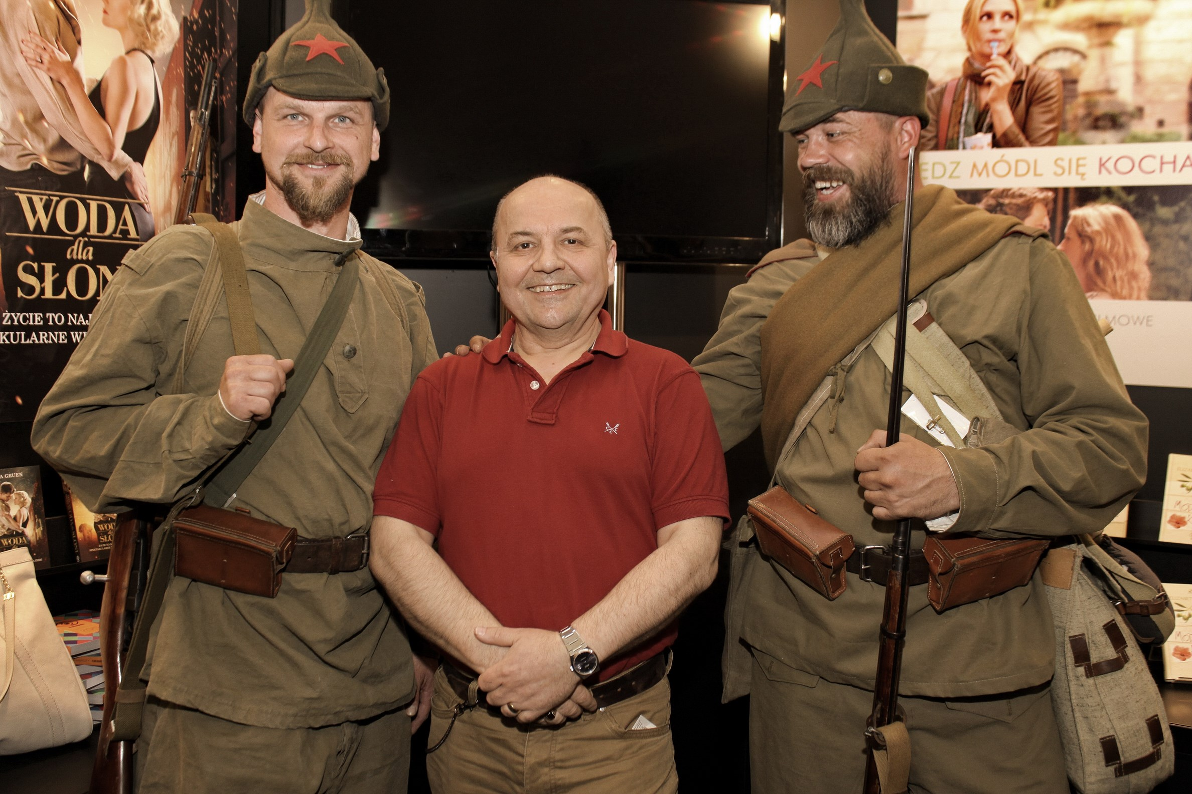 Wiktor Suworow in Warsaw (2011).